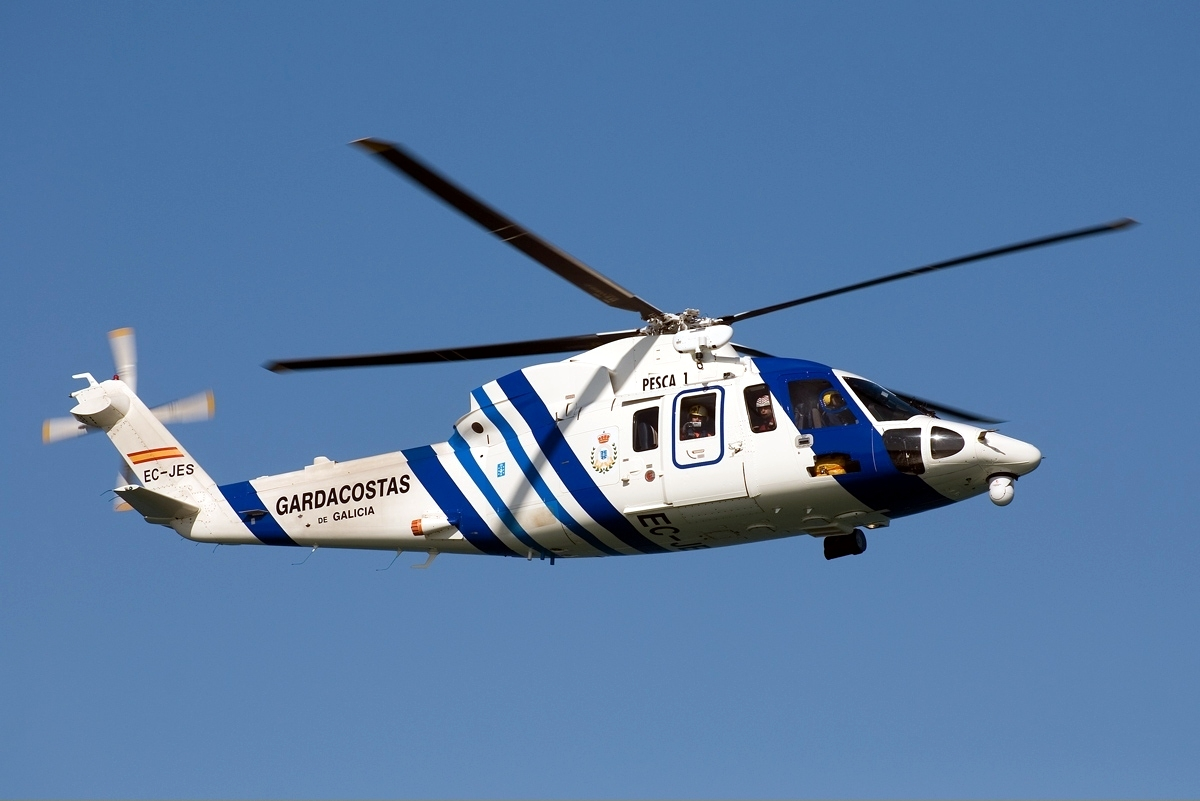 Sikorsky S-76